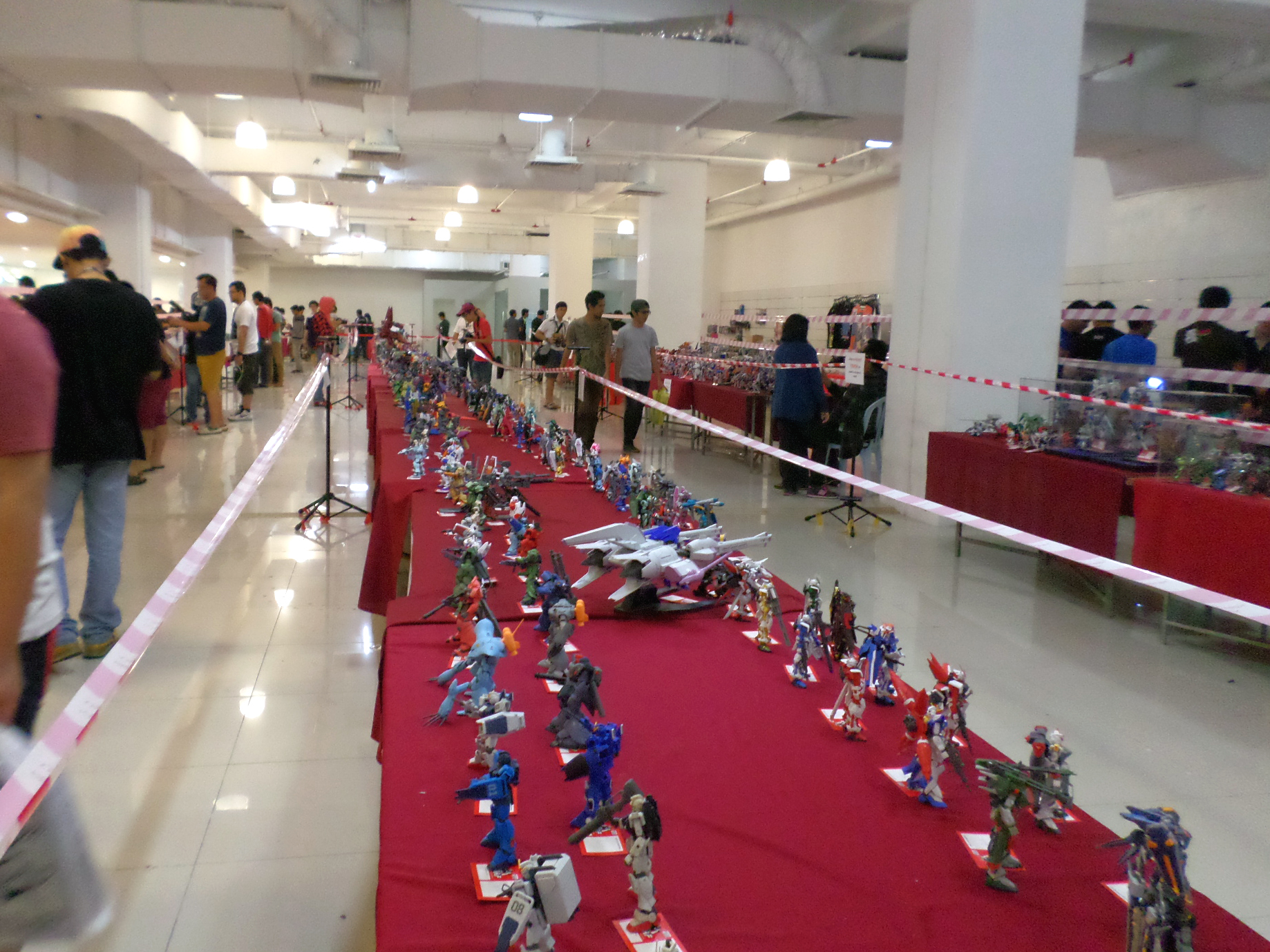 Malaysia G-Art Festival 2015 @ The 19 USJ City Mall, USJ 19, Subang Jaya, Petaling, Selangor, Malaysia